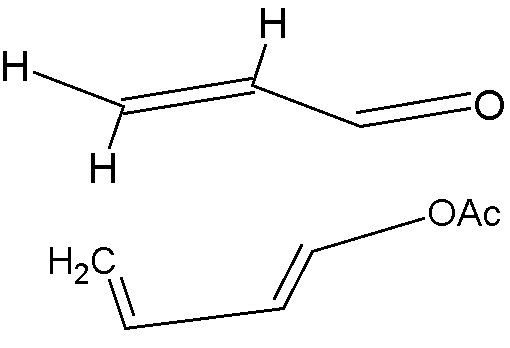 endo orientation in the transition state in Diels-Alder reaction